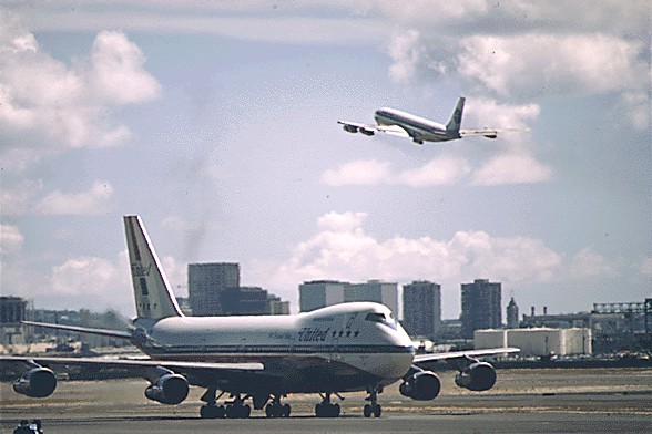 United Airlines Boeing 747 at Honolulu International Airport. A Pan American World Airways Boeing 707 is taking off in the background. EPA photo accessed through National Archives. Reprocessed from Image:UA747 HNL 1973.gif for better colour by Adrian Pingstone.